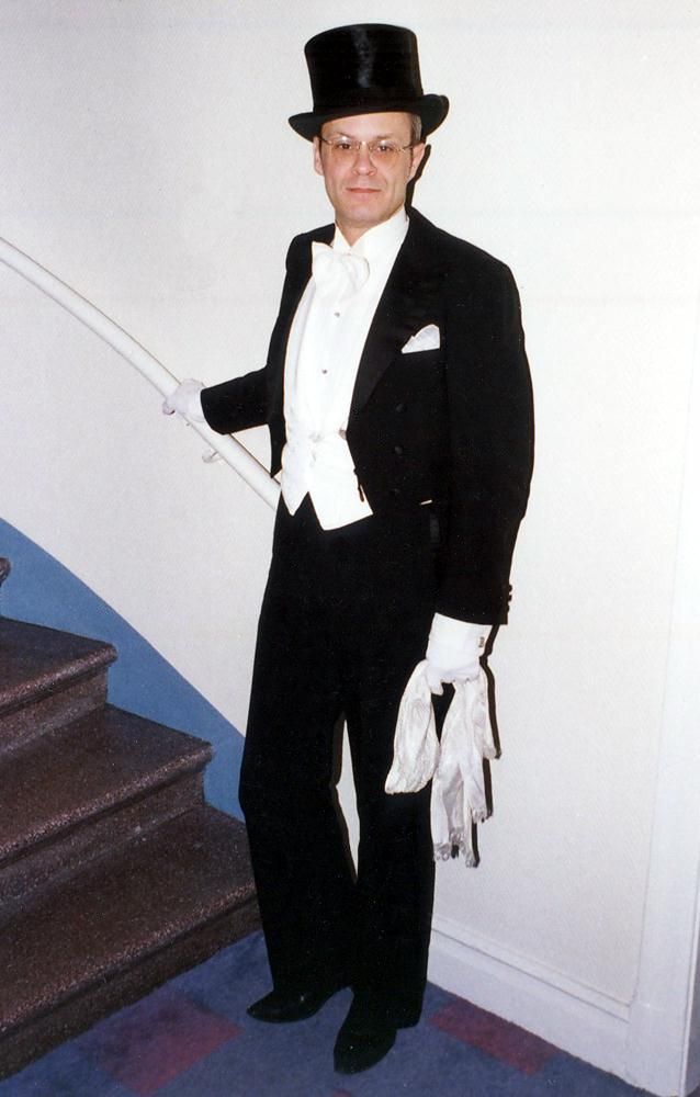 Jacob Truedson Demitz, as released by FamSACPlace: Stadshotellet, Karlavägen 7, Ludvika, Sweden